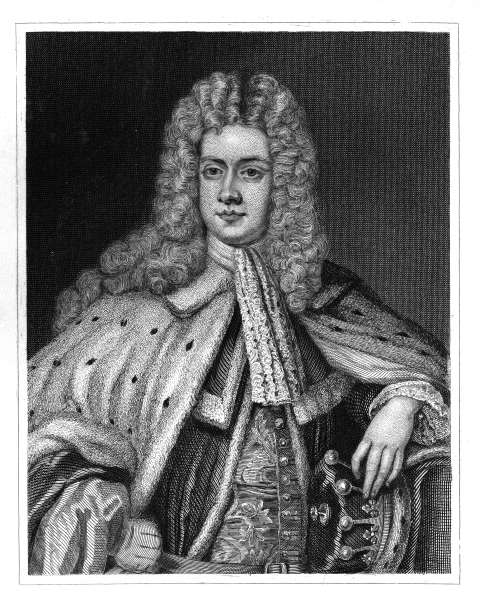 James Radclyffe, 3rd Earl of Derwentwater